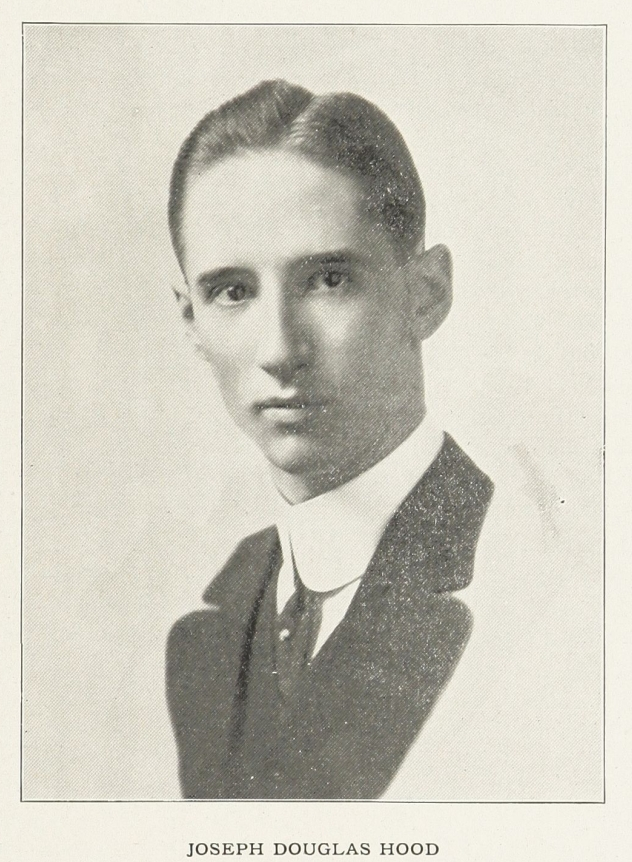 James Douglas Hood